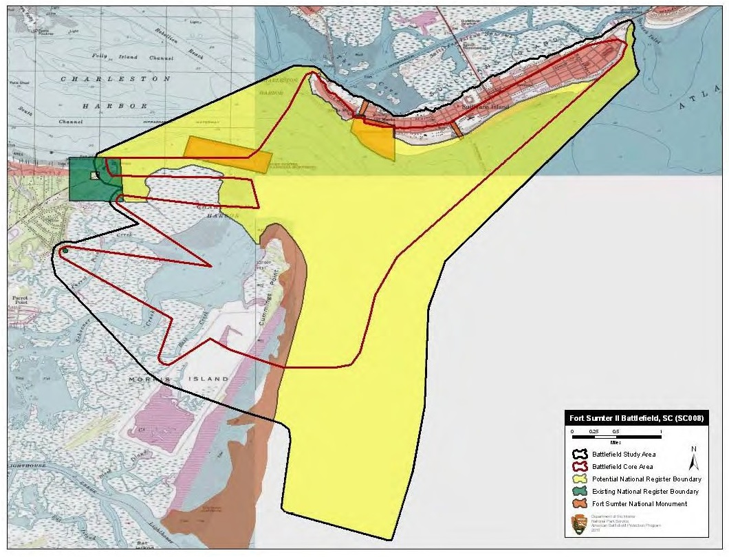 Map of battlefield core and study areas. The ABPP expanded the 1993 Study Area to include Charleston Harbor’s main shipping channel (used by attacking US Naval forces entering the harbor from the Atlantic Ocean), and the Confederate fortifications on Sullivan’s Island. Revisions also include the location of Confederate batteries on the southern edge of James Island, and the line of Confederate obstructions spanning Charleston Harbor. The revised Core Area includes fortifications on James Island (Cheves Battery, Simkins Battery, and Fort Johnson) and Sullivan’s Island (Battery Bee, Fort Moultrie, and Fort Beauregard). Core Area boundaries also reflect fields of fire associated with the Marsh Battery, operations undertaken during the US Navy’s siege of the City of Charleston, and the US Army's bombardment of Fort Sumter, Fort Wagner, and Battery Gregg from the harbor.